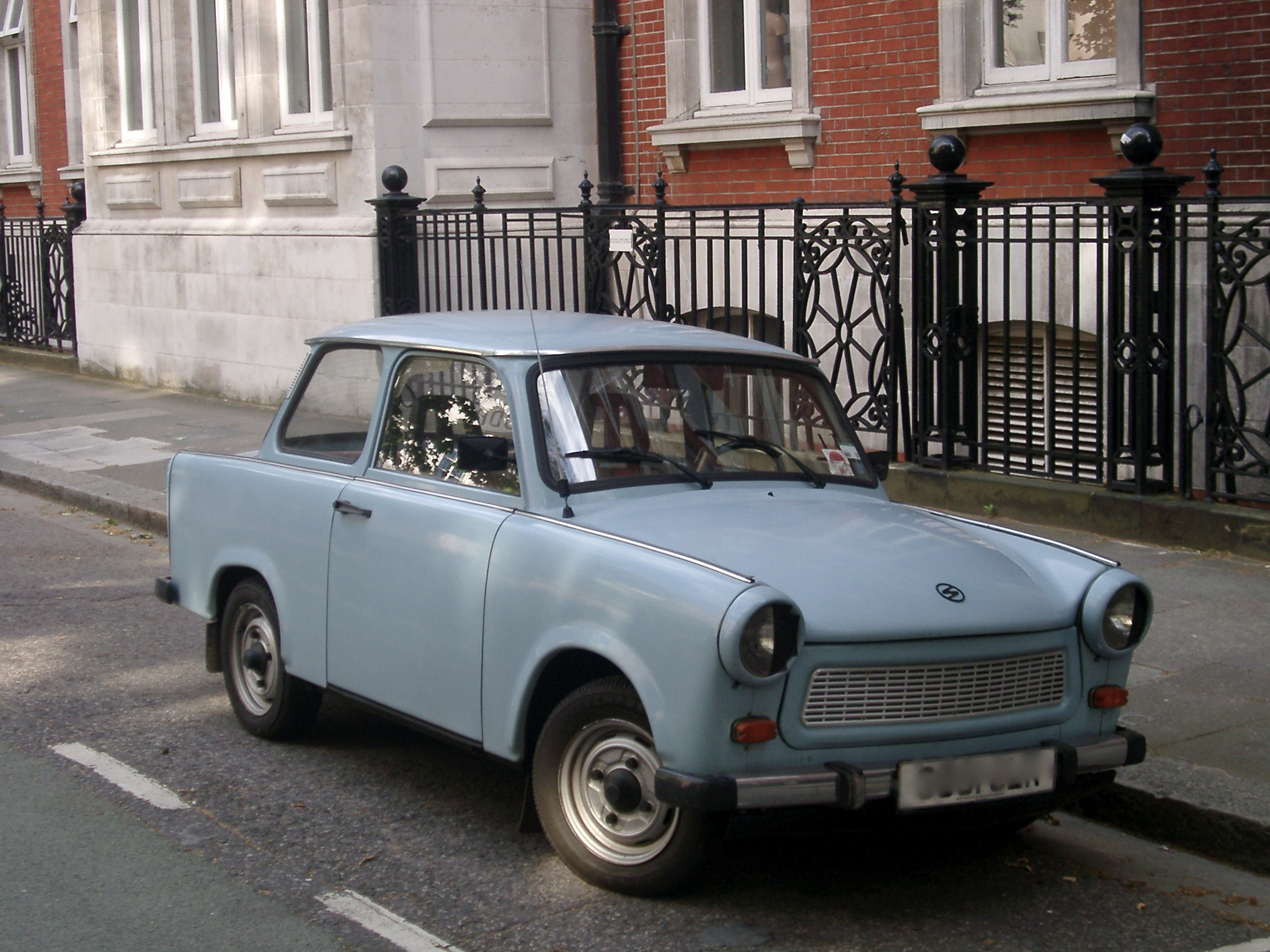 Trabant in London, Malet Street, Bloomsbury WC1E 7HZ